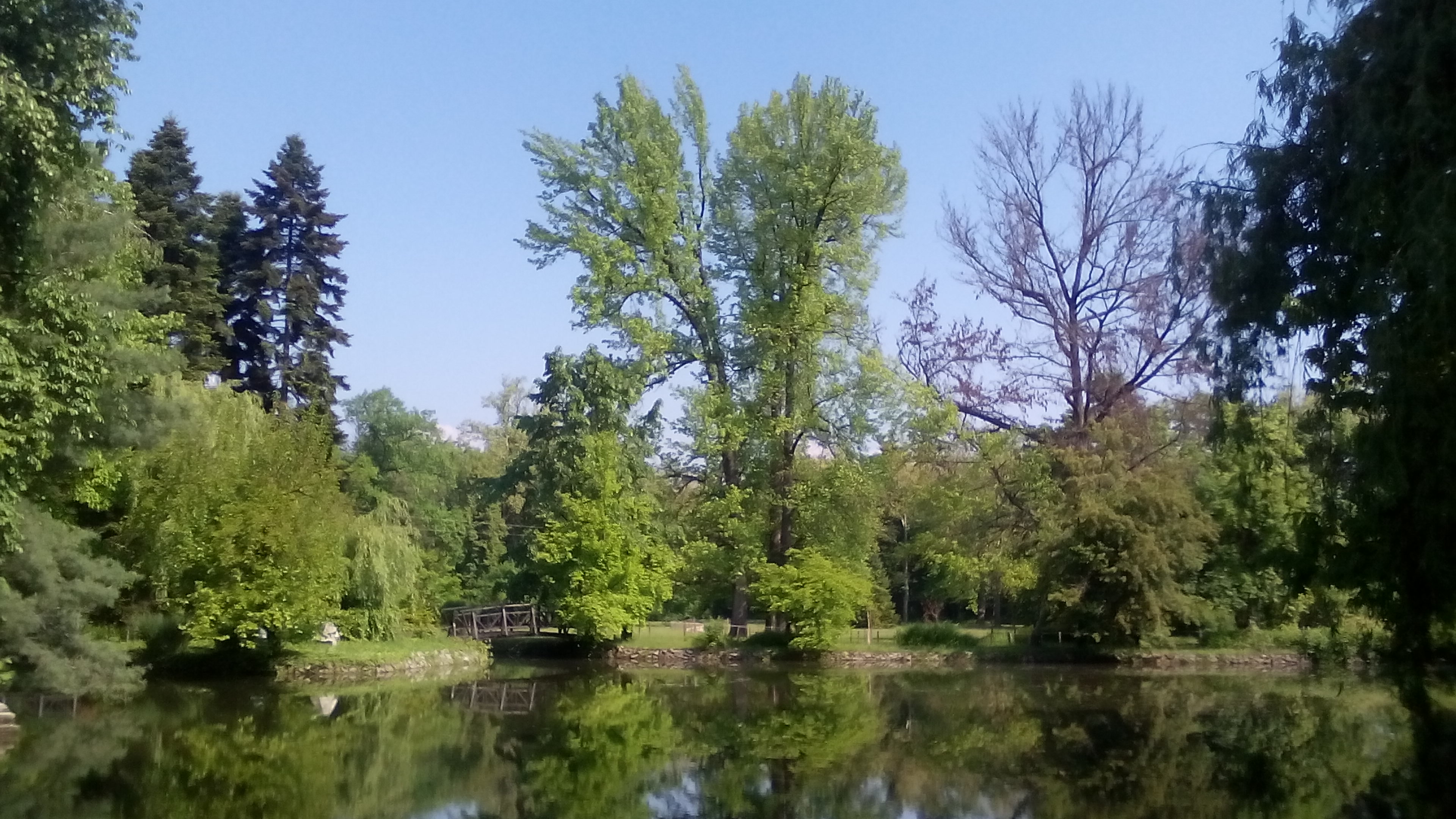 The pond at Vrana Palace